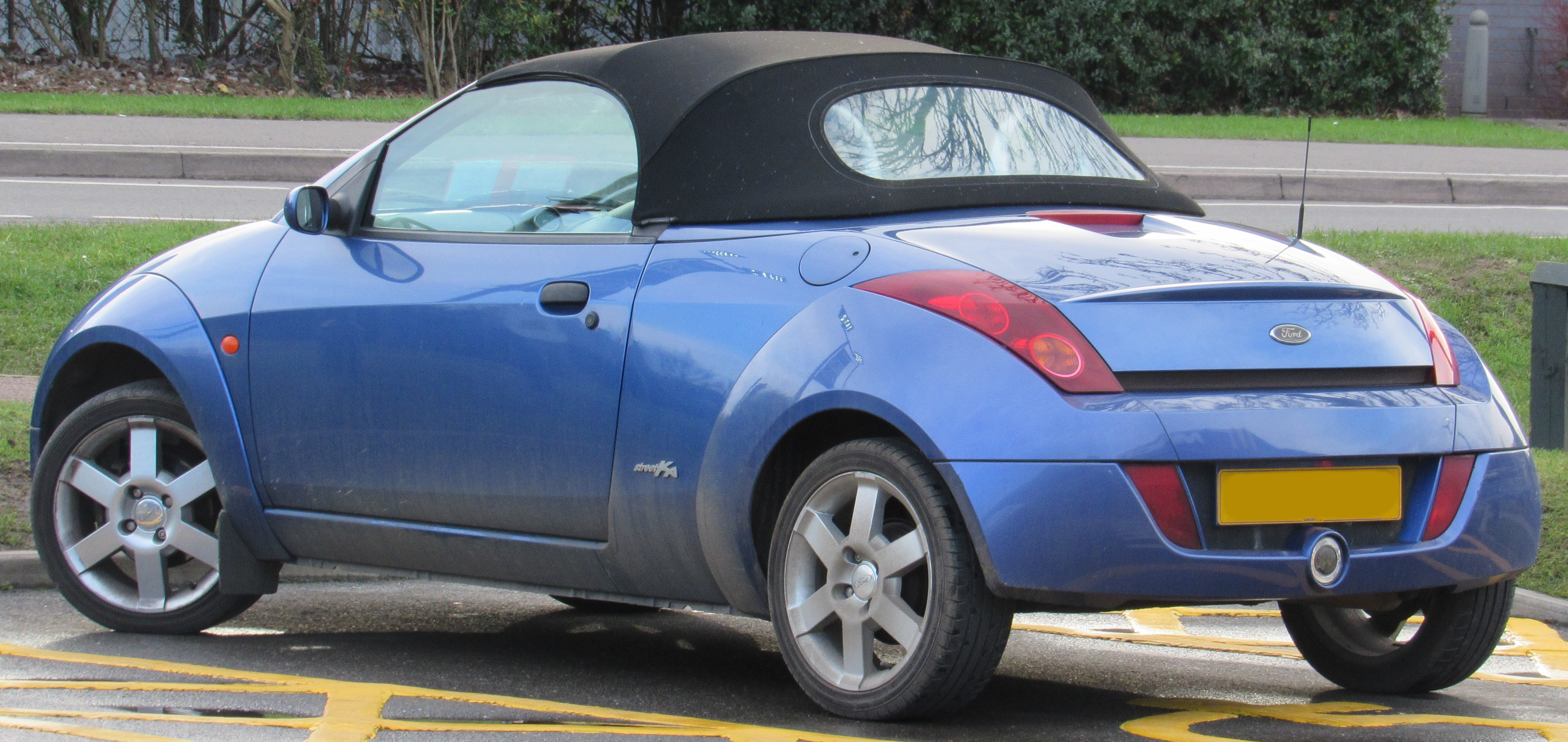 2004 Ford StreetKa 1.6 Rear Taken in Leamington Spa